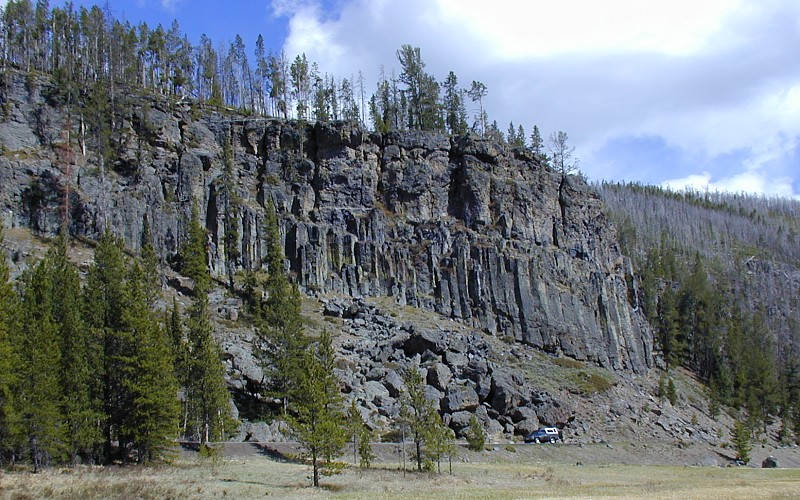 Obsidian cliff cleavage